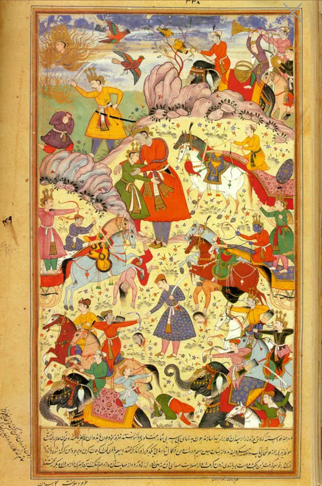 Author: Ramanarayanadatta astri Volume: 4 Publisher: [Gorakhpur Geeta Press] Possible copyright status: NOT_IN_COPYRIGHT Language: Hindi Call number: AAO-3248 Digitizing sponsor: University of Toronto Book contributor: Robarts - University of Toronto Collection: robarts; toronto Full catalog record: MARCXML [Open Library icon]This book has an editable web page on Open Library.